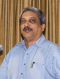 Chief Minister Manohar Parrikar addressing the gathering at the DKA Silver Jubilee inaugural function at the Ravindra Bhavan in Margao on August 28, 2012.